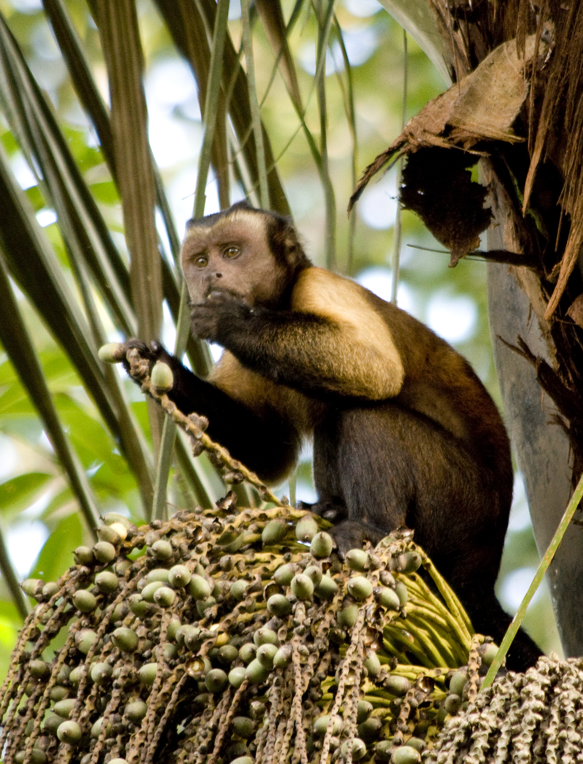 Guyanan brown capuchin (Sapajus apella apella) in French Guyana.